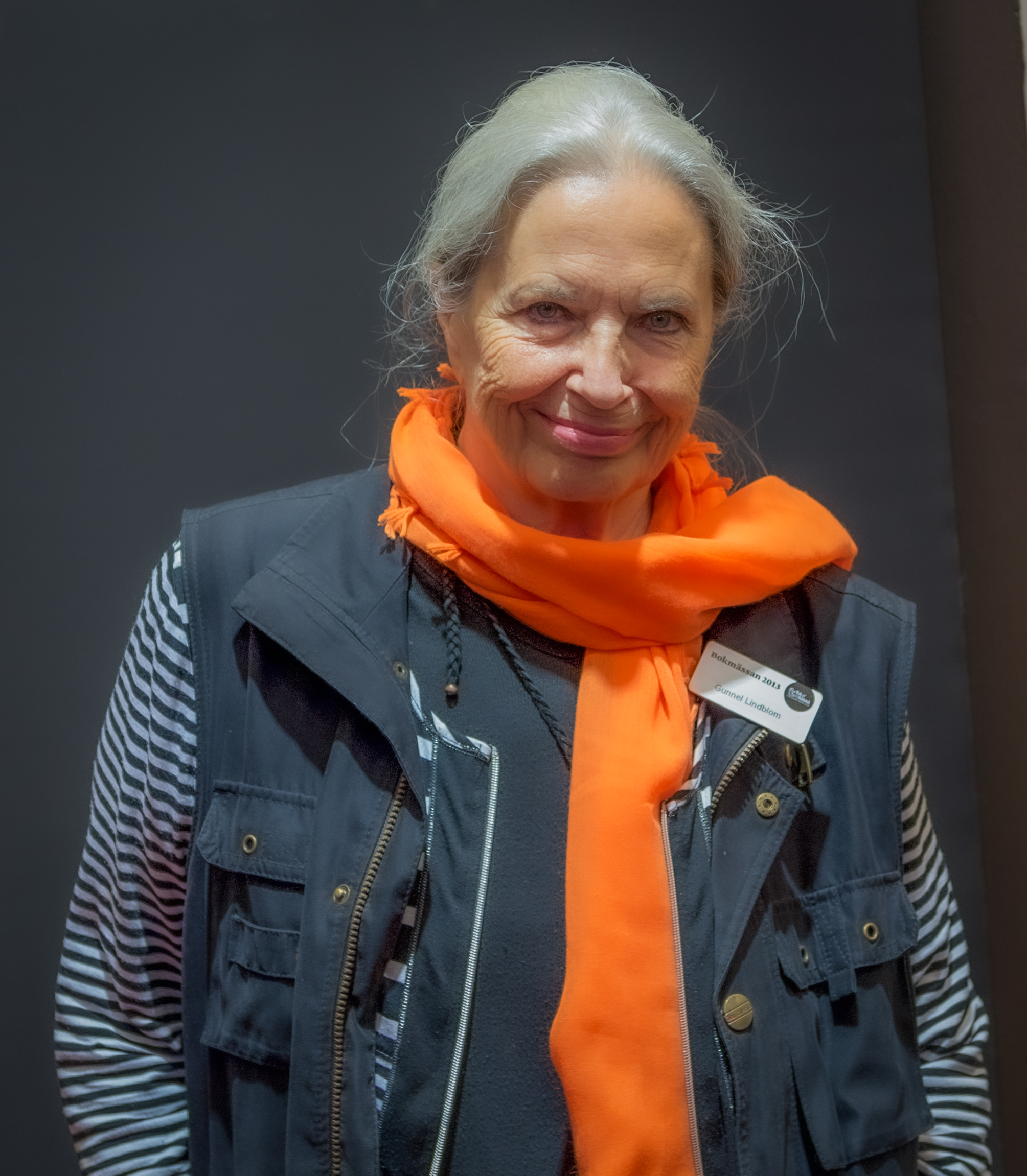 Gunnel Lindblom at the Göteborg Book Fair 2013.